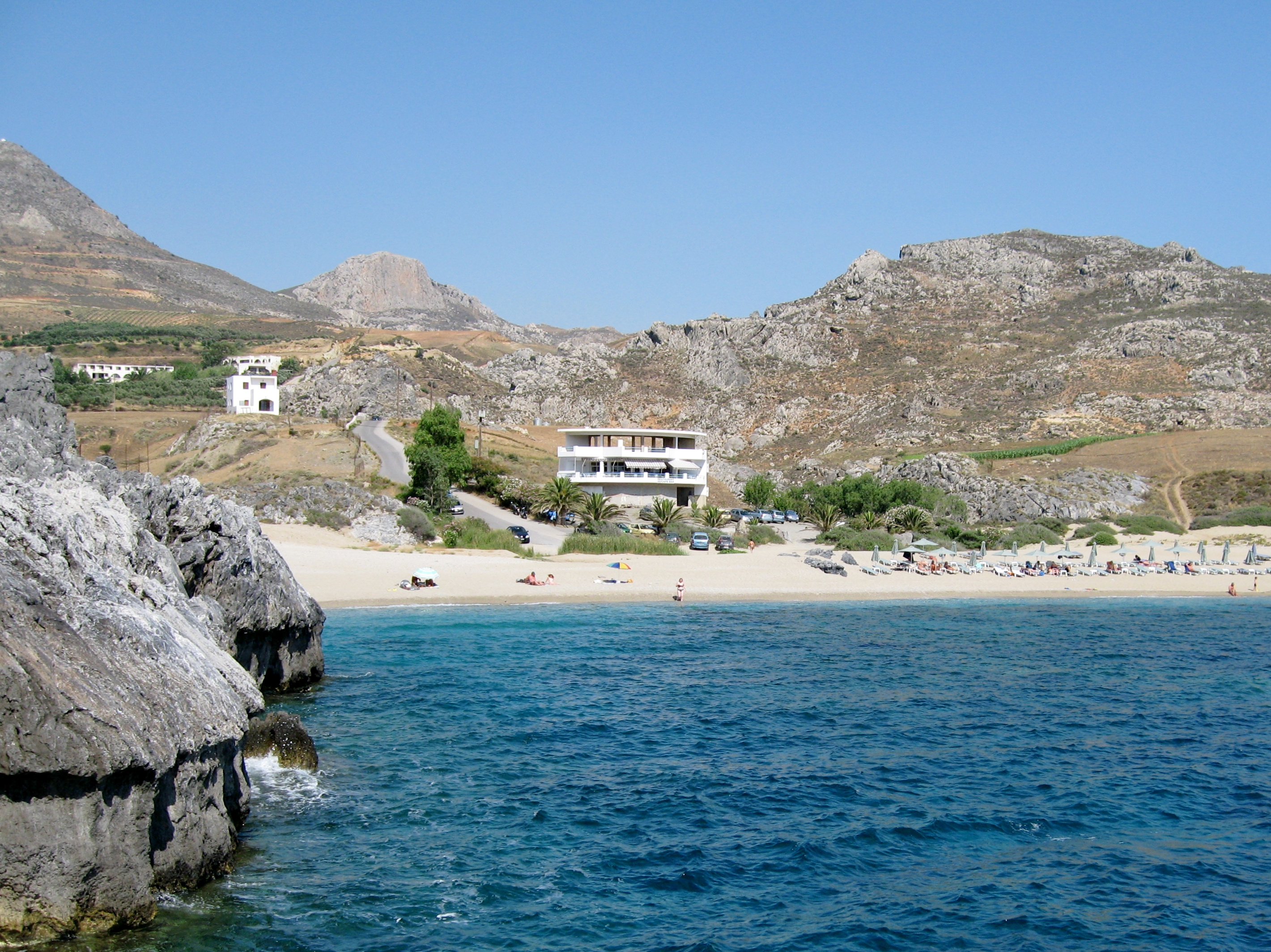 Schinaria, Finikas, Rethymno prefecture, Crete, Greece